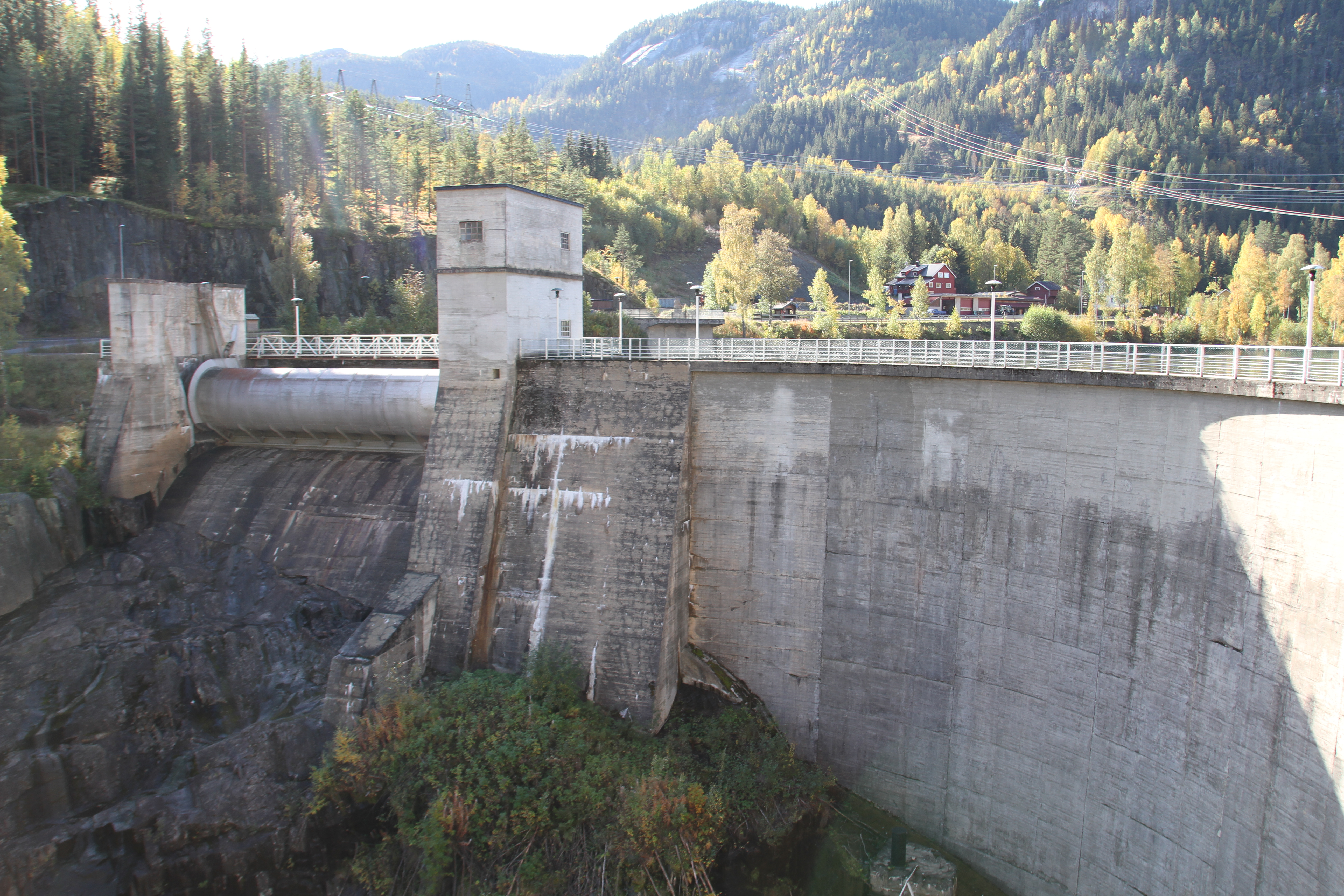 Rødbergdammen is a reservoir dam which regulates the lower reservoir of the Nore I Power station, and part of the upper reservoir of the Nore II Power station. Both the dam and the reservoir are named "Rødbergdammen". Nore og Uvdal municipality, Norway